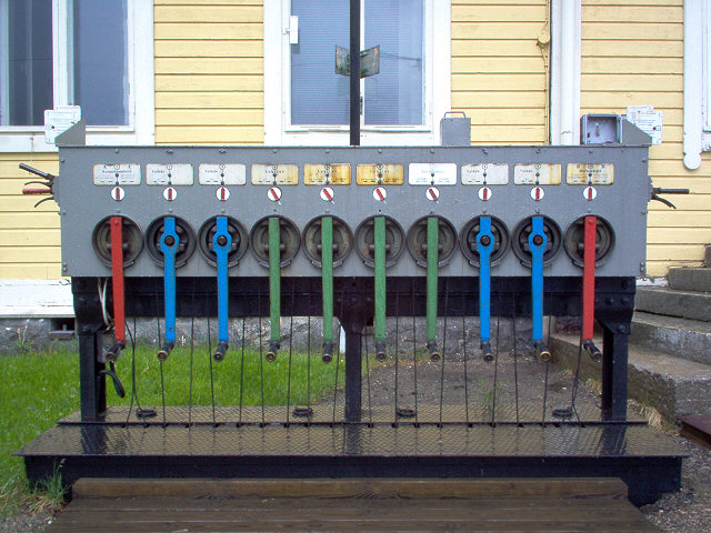 Hand-operated crank-type points-machine at Sukeva, Finland. Photographed on 6 June 2005: only a few weeks before the machine was torn and electric points-machines installed.